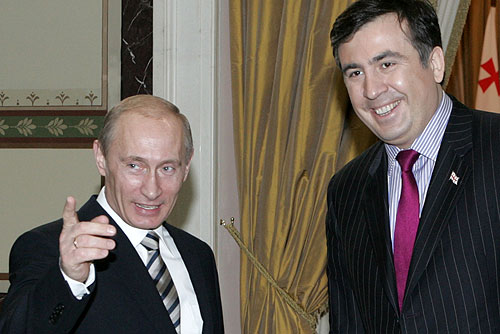 NOVO-OGARYOVO. Meeting with President of Georgia Mikhail Saakashvili.